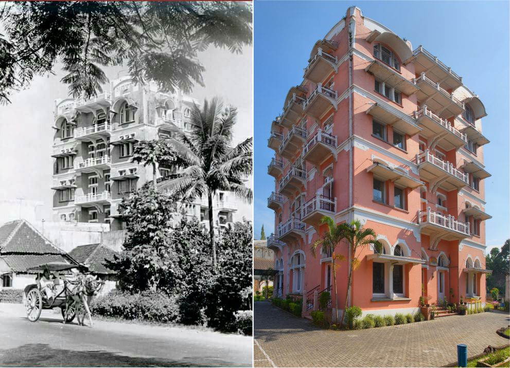 Liem Sian Joe House Malang, 1922 "Hotel Niagara"